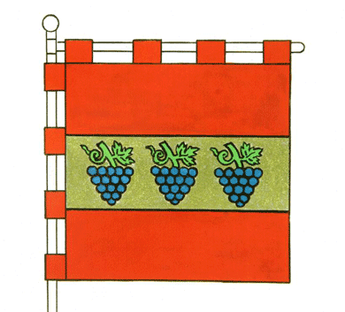 Original banner of Bilhorod-Dnistrovskyi